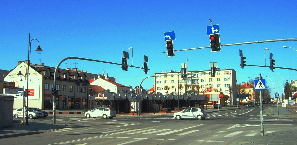 New Market Sq. in Nowe Miasto (New Town) housing estate, in Zamość